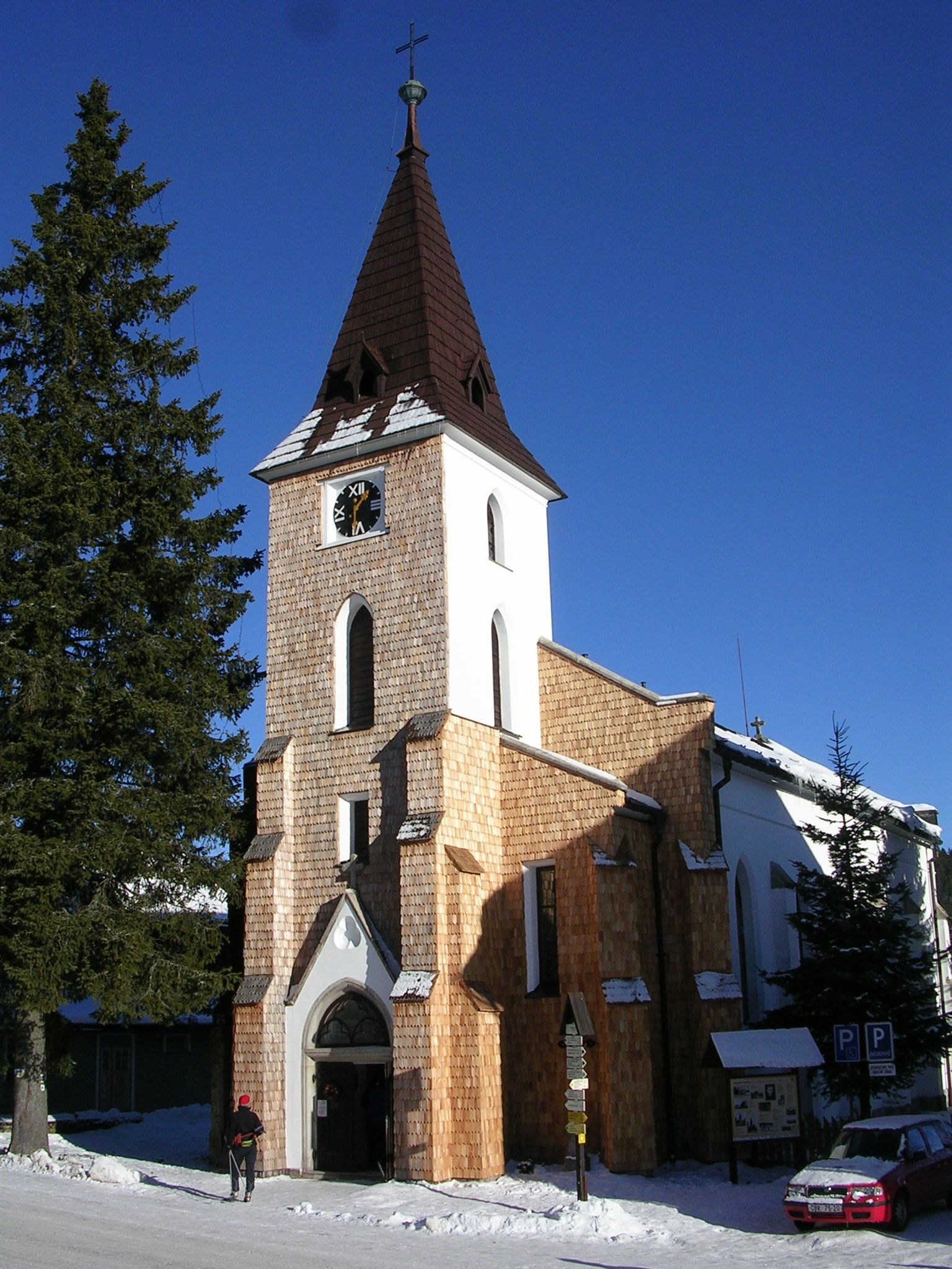 Kvilda, the Czech Republic.